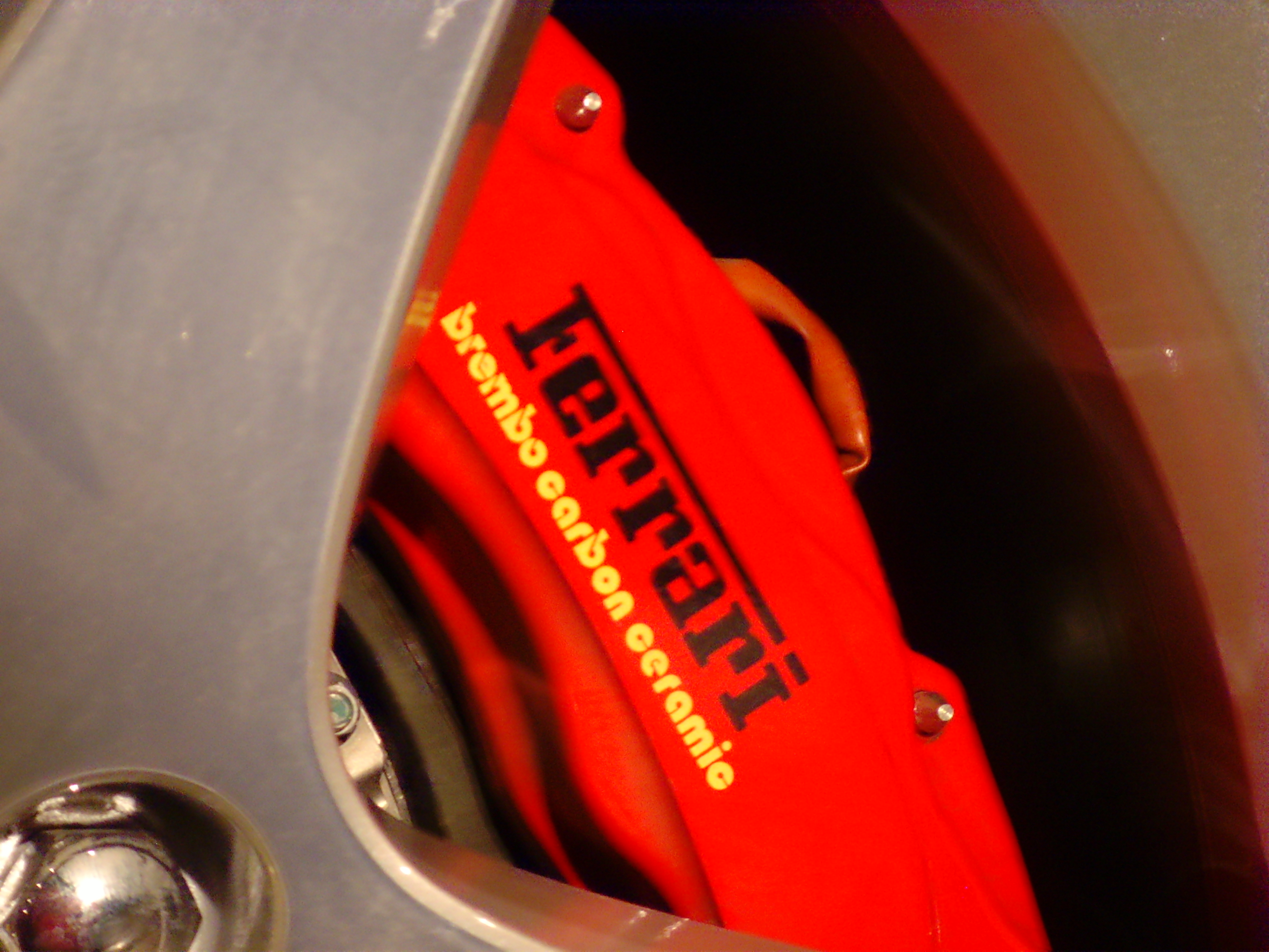 Brembo's brake of a Ferrari California.